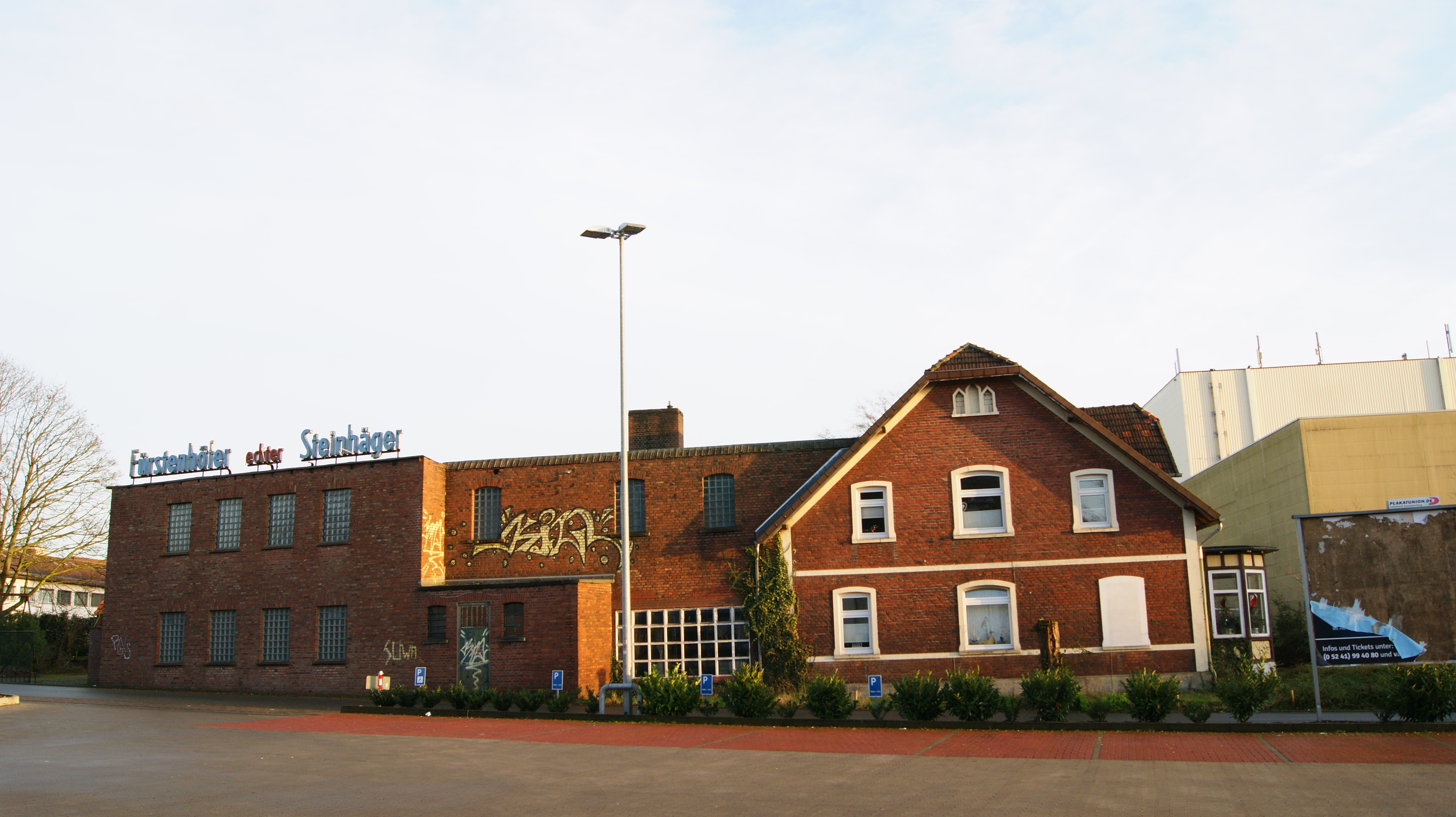 Company "Fuerstenhoefer" at Bergstrasse 6 in Steinhagen, Westphalia, Germany, manufactures still today the original "Steinhaeger".